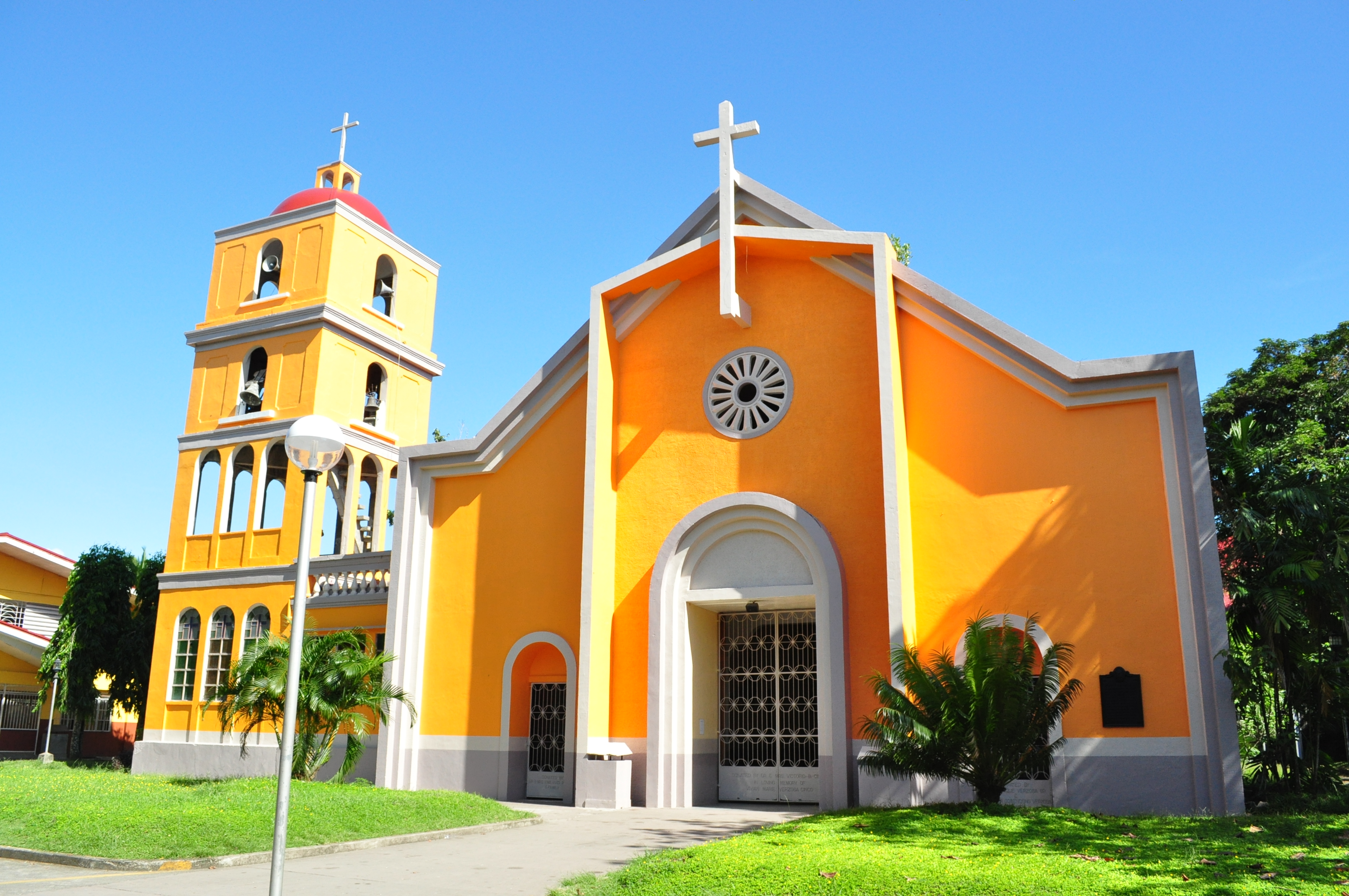 Church of Tanauan, Leyte